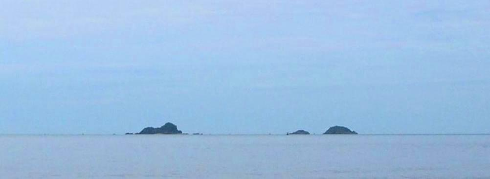 Ko Sai Island